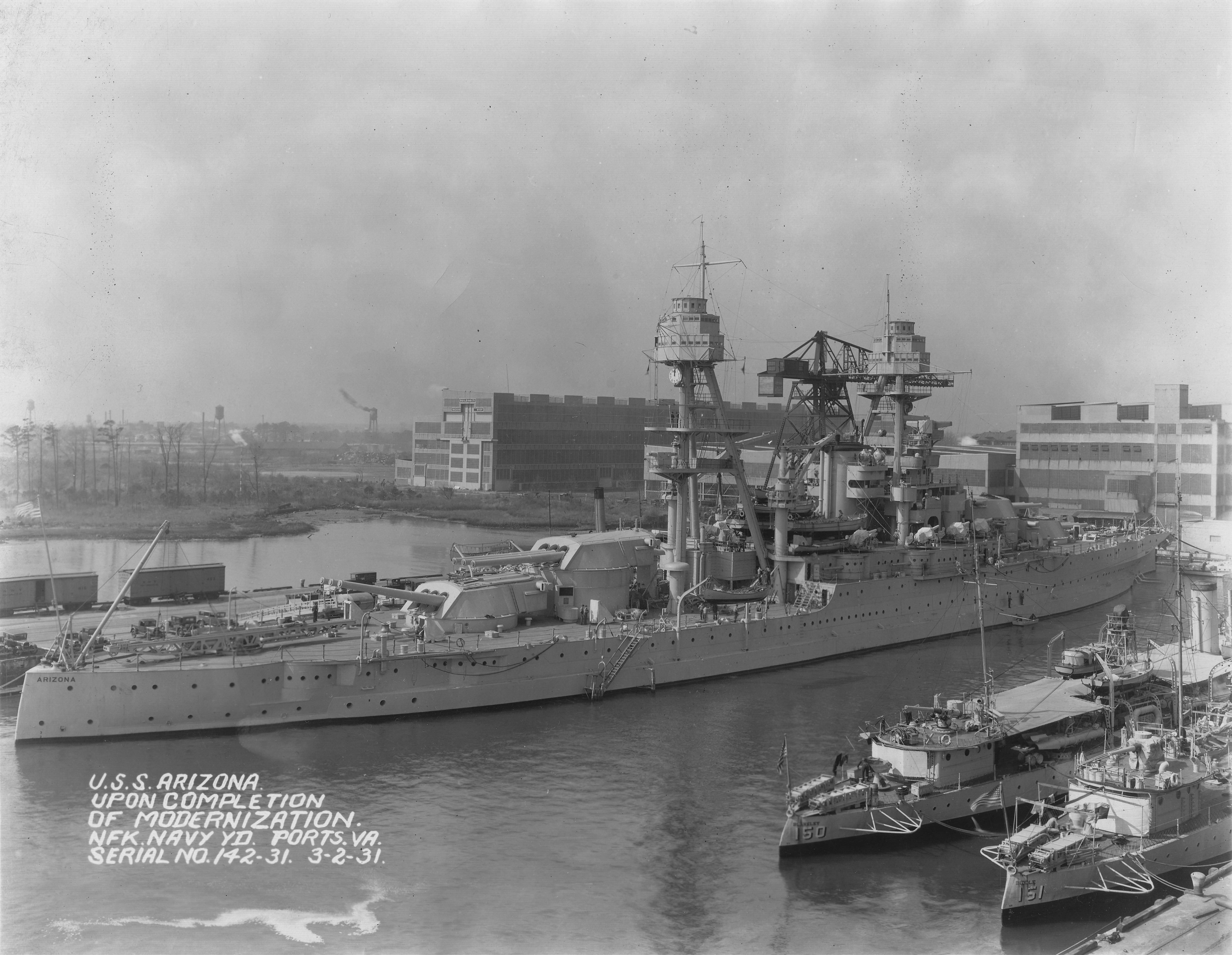 Starboard rear quarter view of the U.S. Navy battleship USS Arizona (BB-39) in the Norfolk Naval Shipyard in Portsmouth, Virginia (USA), in March 1931 following her modernization. To the right are the destroyers USS Blakeley (DD-150) and USS Biddle (DD-151).